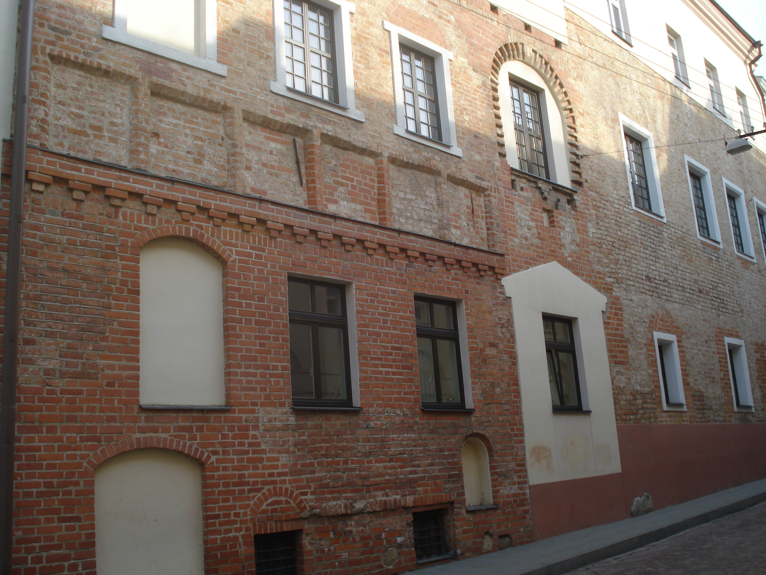 Vilnius university. The oldest building of the university (the beginning of the 15th century; Universiteto g. 3)